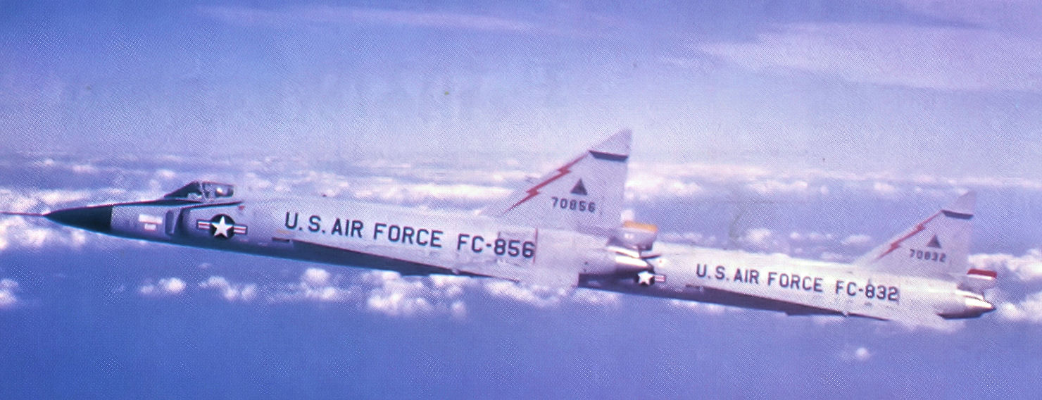 482d Fighter-Interceptor Squadron F-102s 57-0856 57-0832 SJ